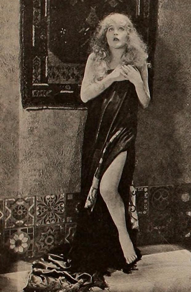 Still from the American film The Right to Love (1920) with Mae Murray, on page 4810 of the June 12, 1920 Motion Picture News.